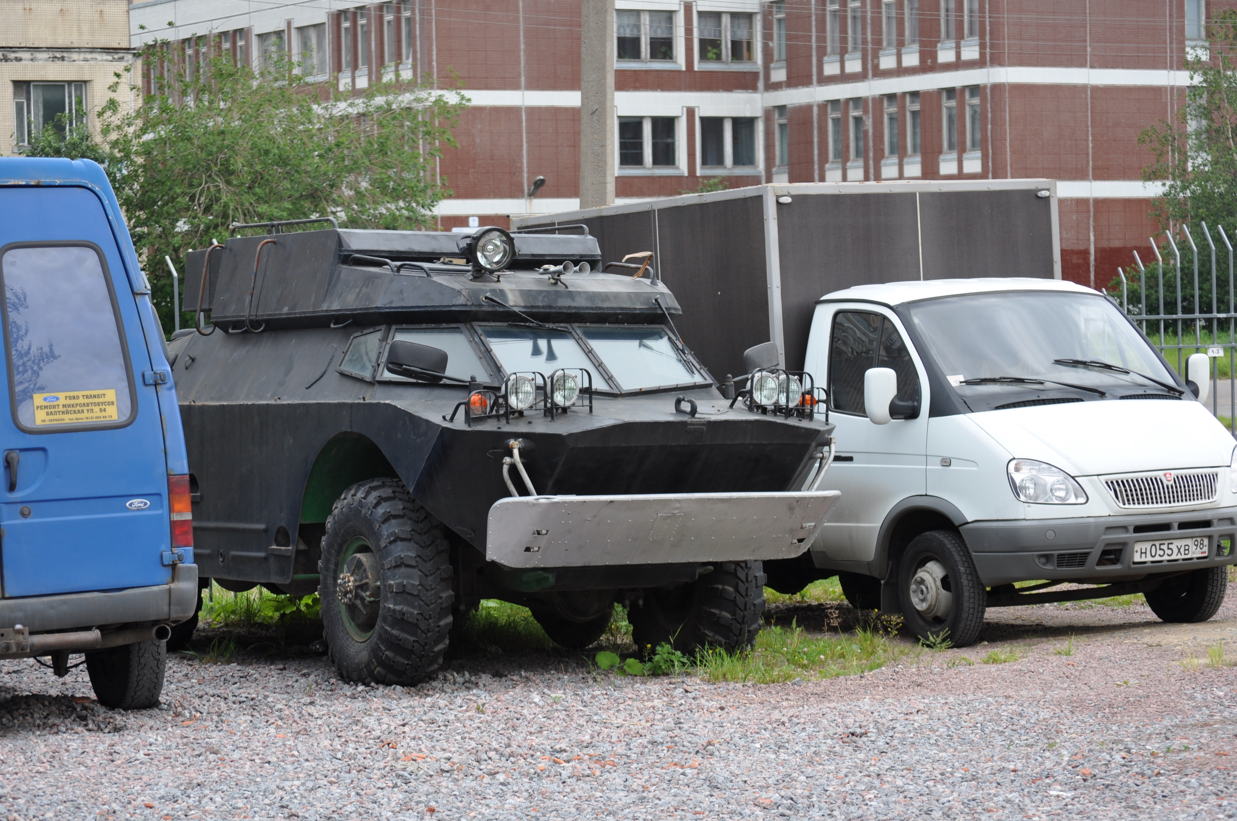 Russian BRDM-2 converted into a civilian amphibious transport vehicle.